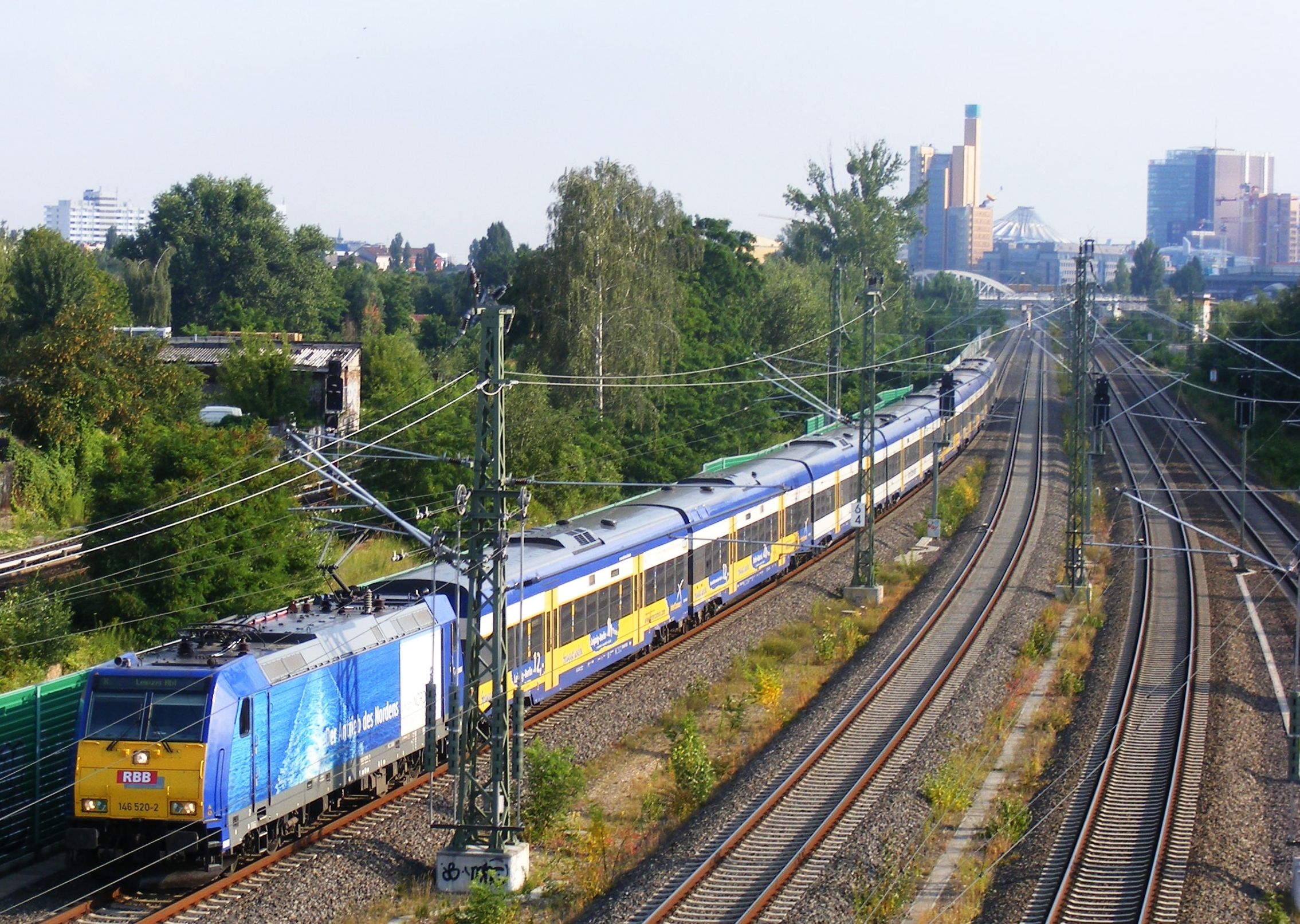 Nord-Süd-Fernbahn (Railway junction for north-south long distance trains) in Berlin